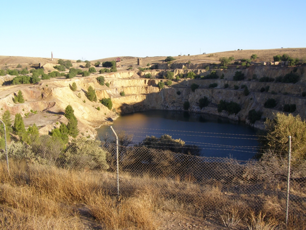 Open pit of the former Burra copper mine, South Australia